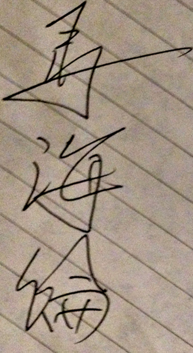 This is Helen Ma's signature.